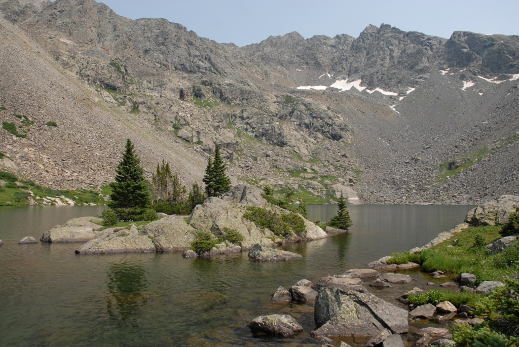 Mystic Island Lake, Holy Cross Wilderness Area, south of Eagle, Colorado.